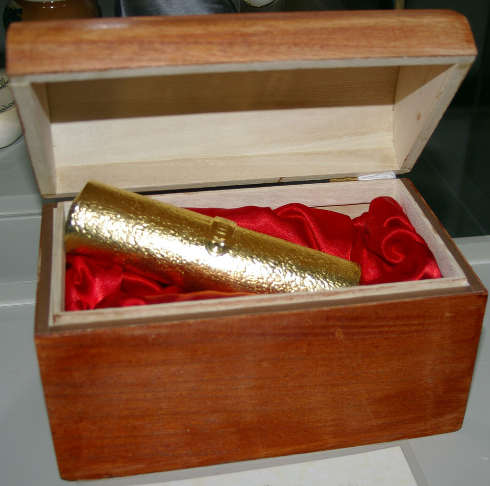 Golden Chiko roll at the Museum of the Riverina in Wagga Wagga, New South Wales